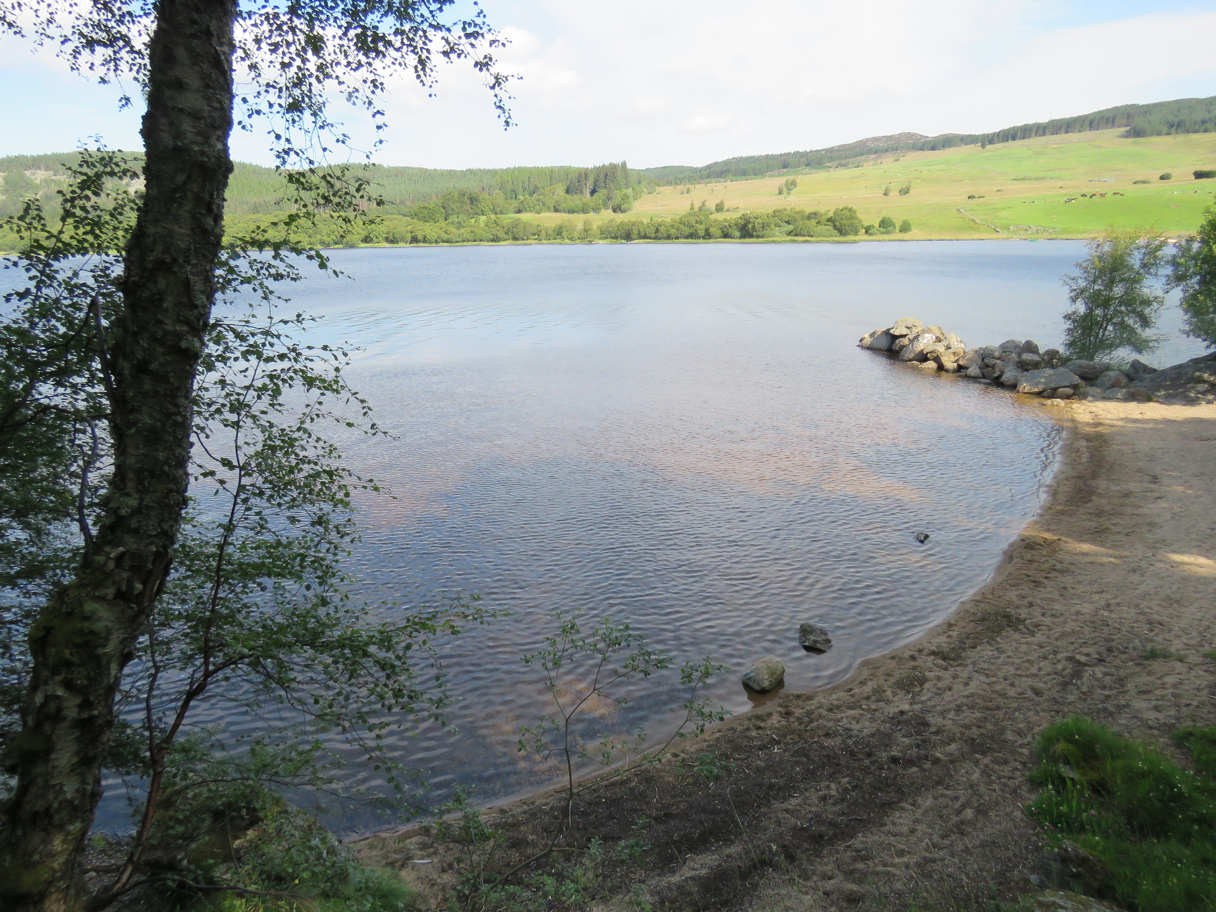 rspb Loch Ruthven, Scotland